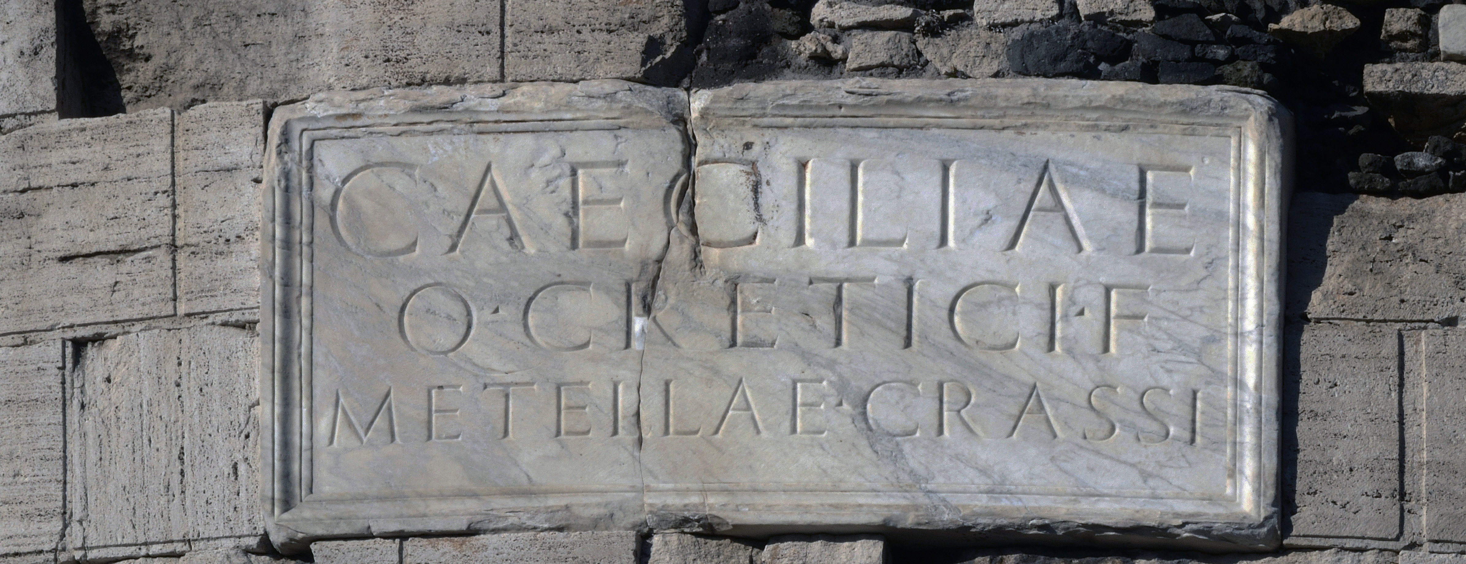 Mausoleum of Cecilia Metella (Rome): Titulus cecilia metella